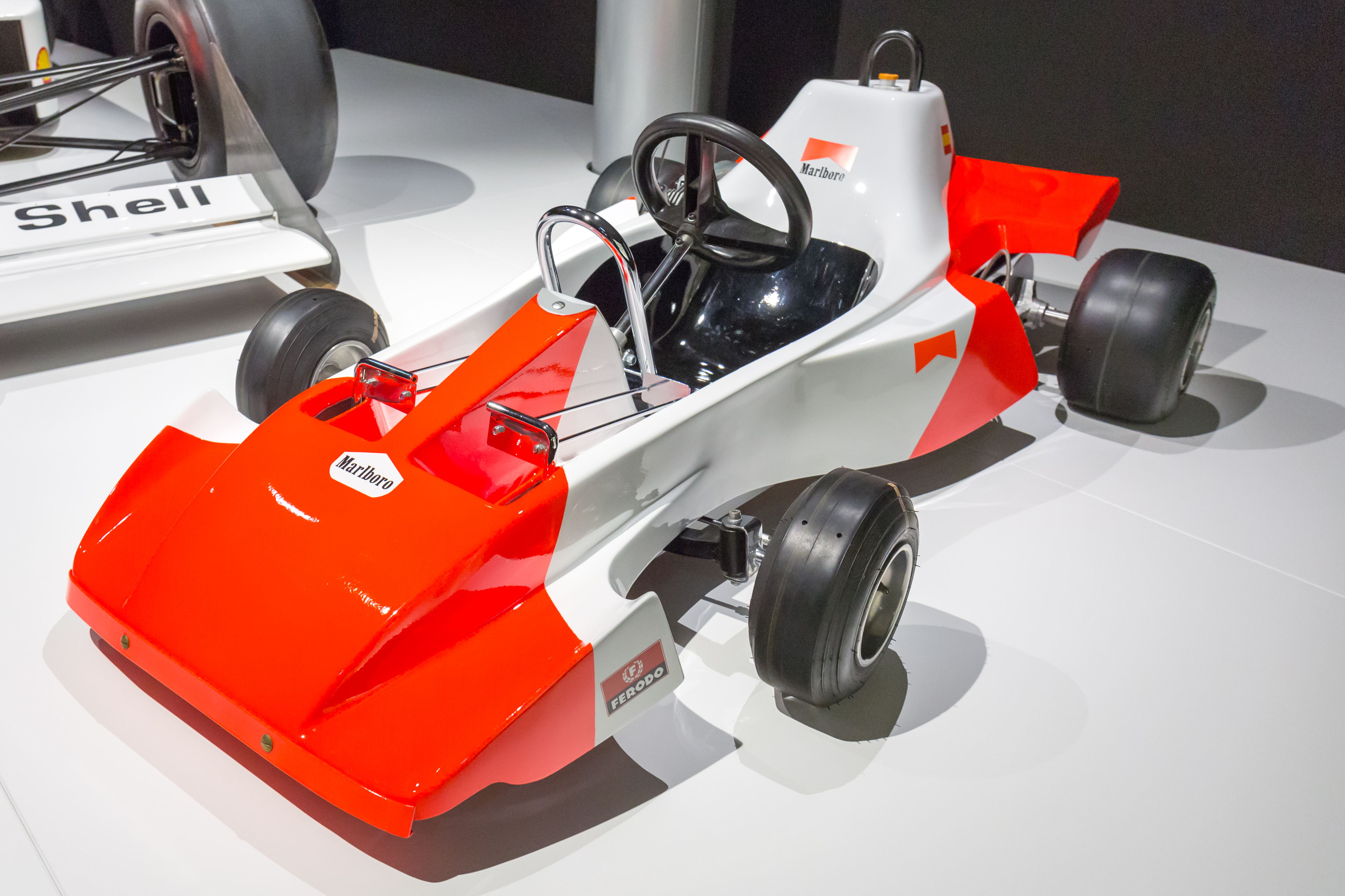 Museo y Circuito Fernando Alonso: Fernando Alonso's first kart